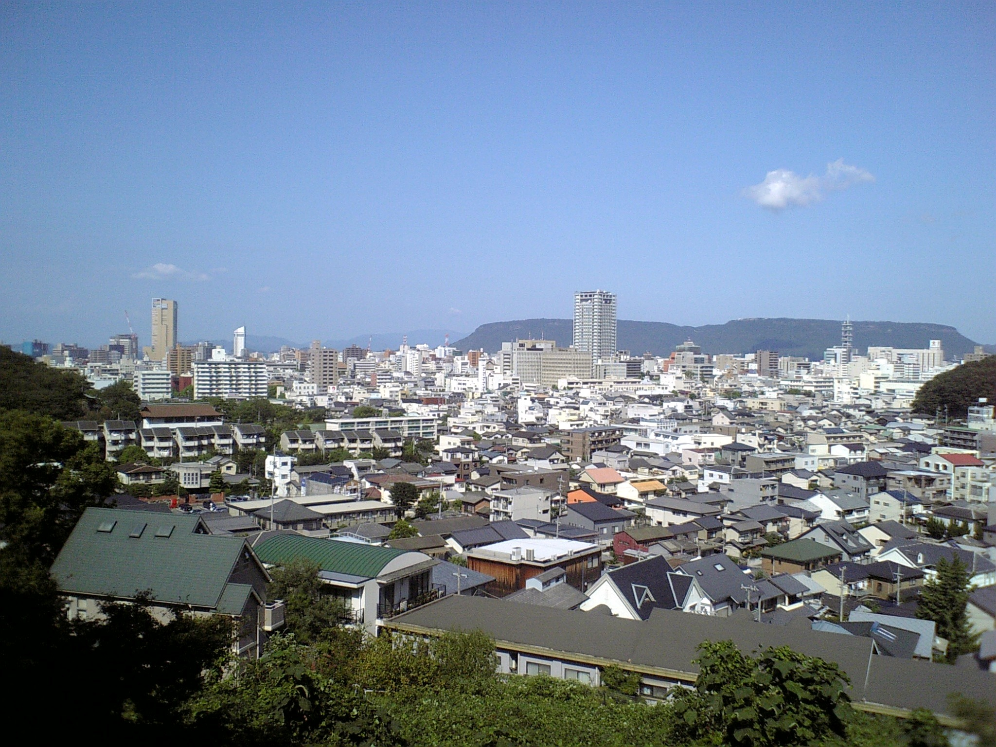 skykine of Takamatsu city from Mt. Mineyama